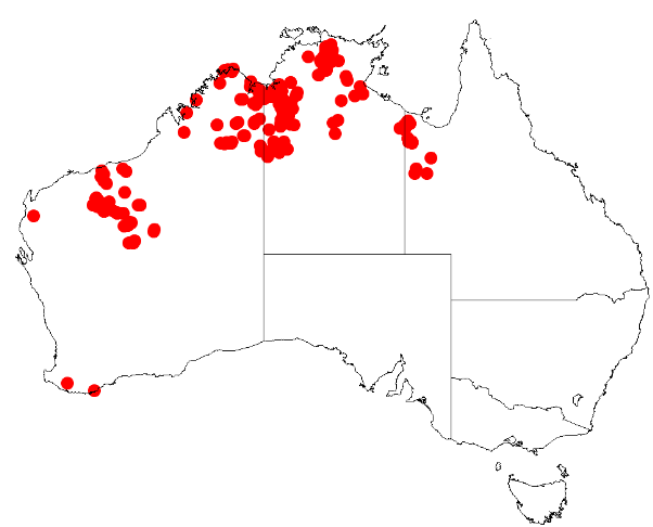 Scaevola browniana Occurrence data downloaded from Australasian Virtual Herbarium on 12 May 2019